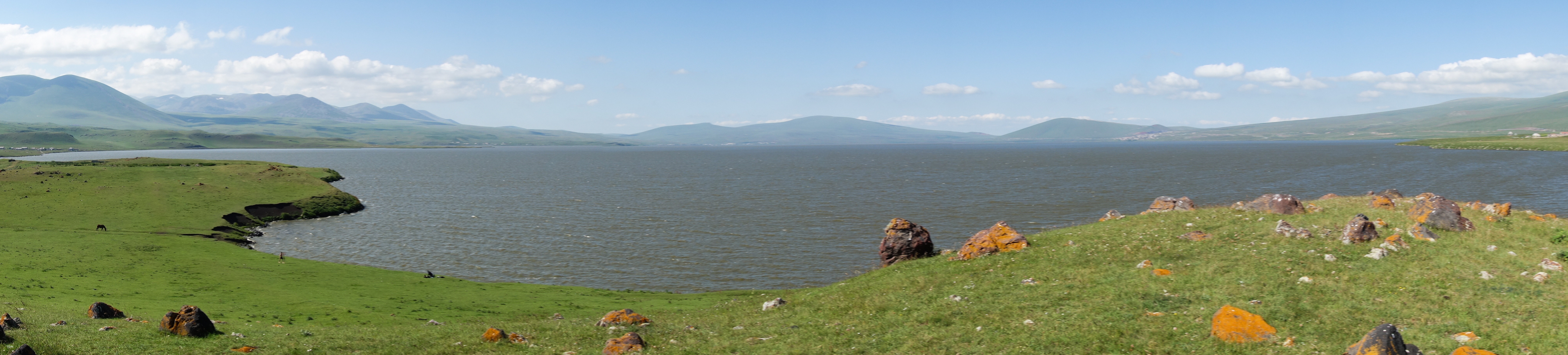 Lake Paravani as seen from the southern shore, Samtskhe-Javakheti, Georgia